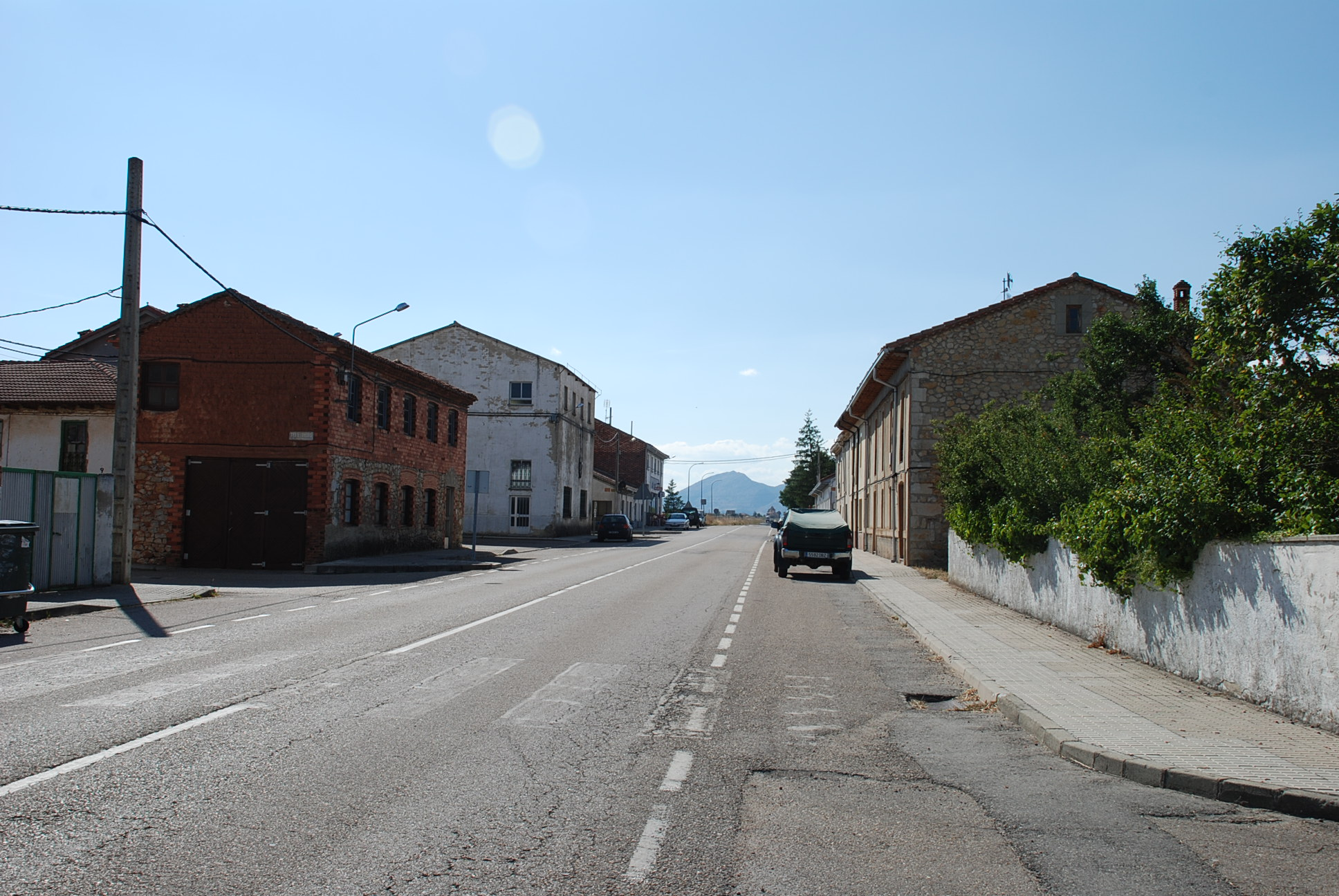 CL-626 road crossing Castrejón de la Peña (Palencia, Castile and León).